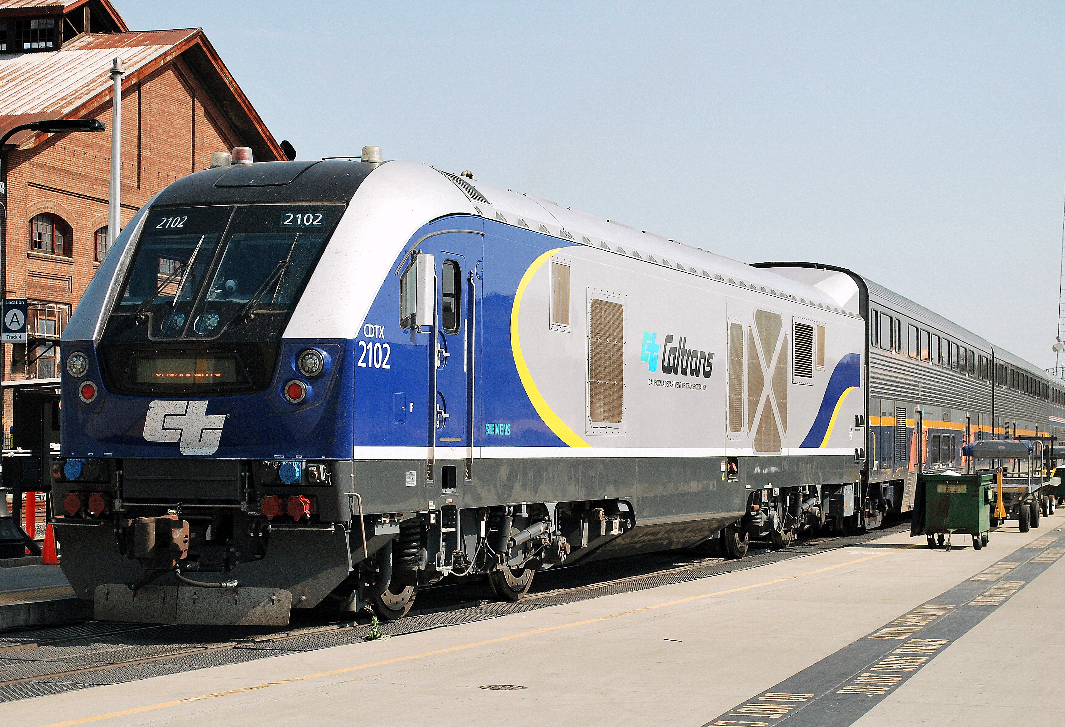 Amtrak locomotive #2102 (Siemens Charger SC-44) with Capitol Corridor train in Sacramento